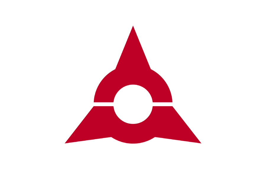 Flag of Ube, Yamaguchi